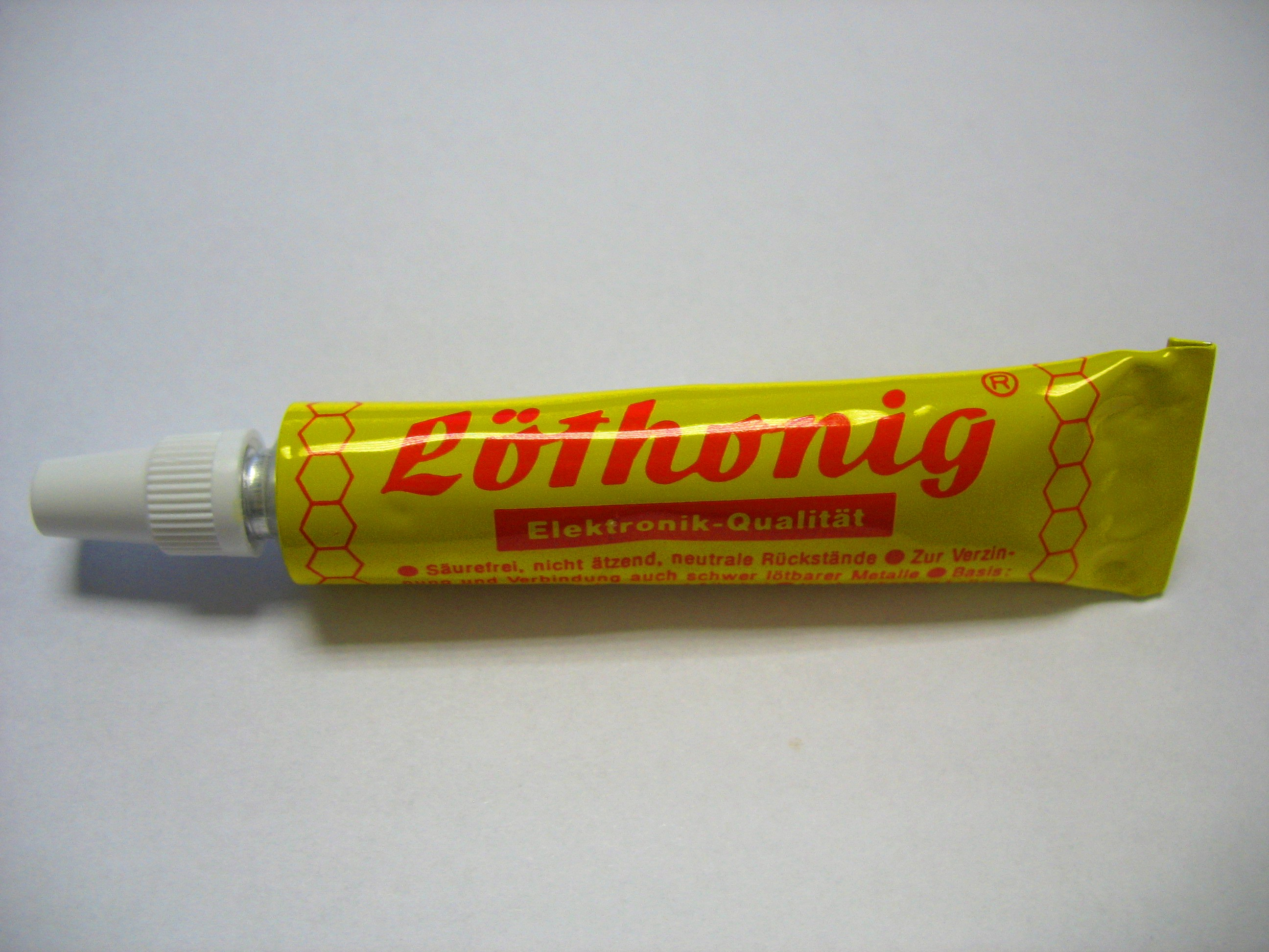 A special type of soldering flux called "Löthonig" (german for Soldering honey). Consists from Rosin solved in Alcohol